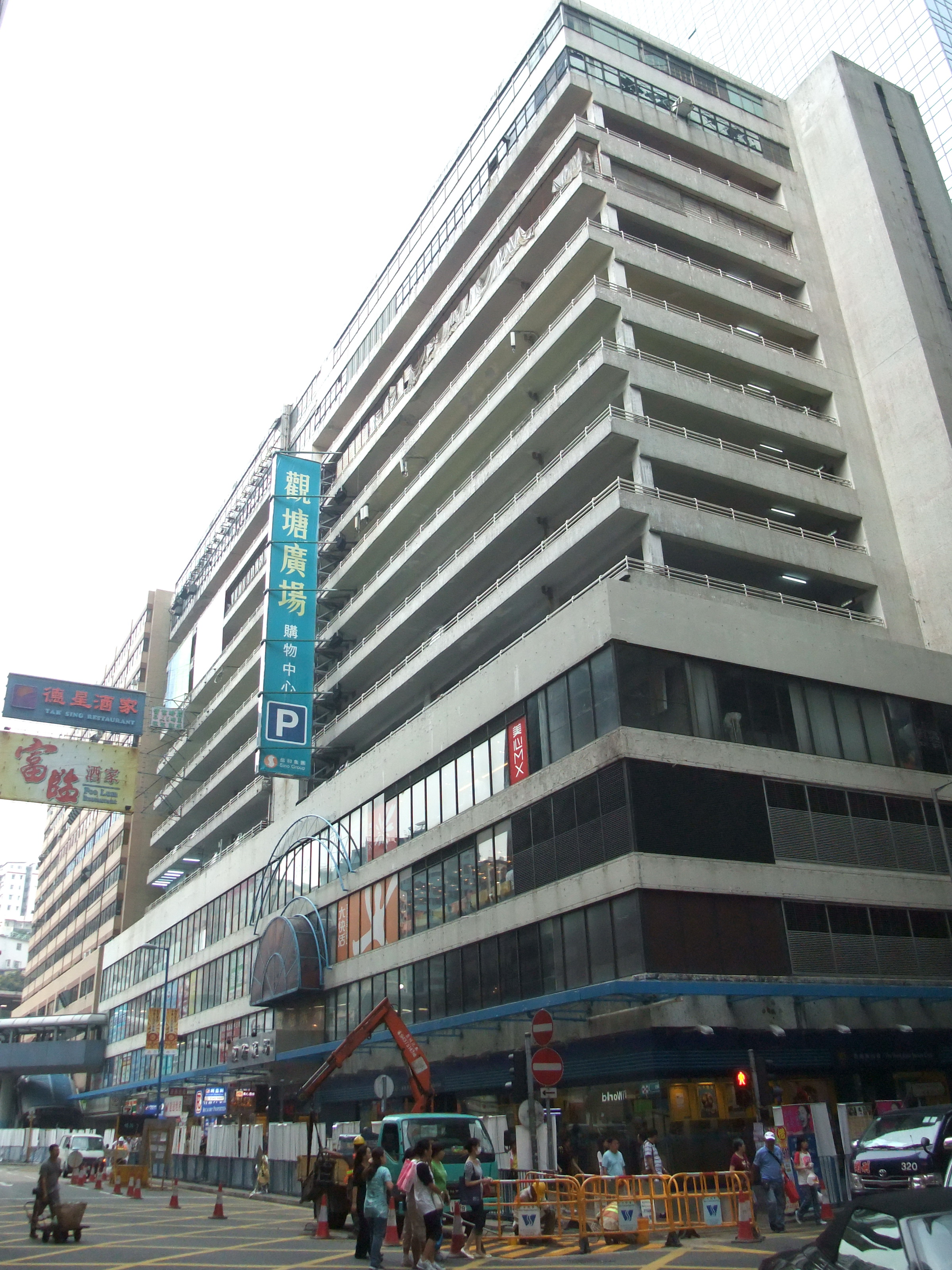 Kwun Tong Plaza, Hoi Yuen Road, Kwun Tong, Kowloon, Hong Kong.